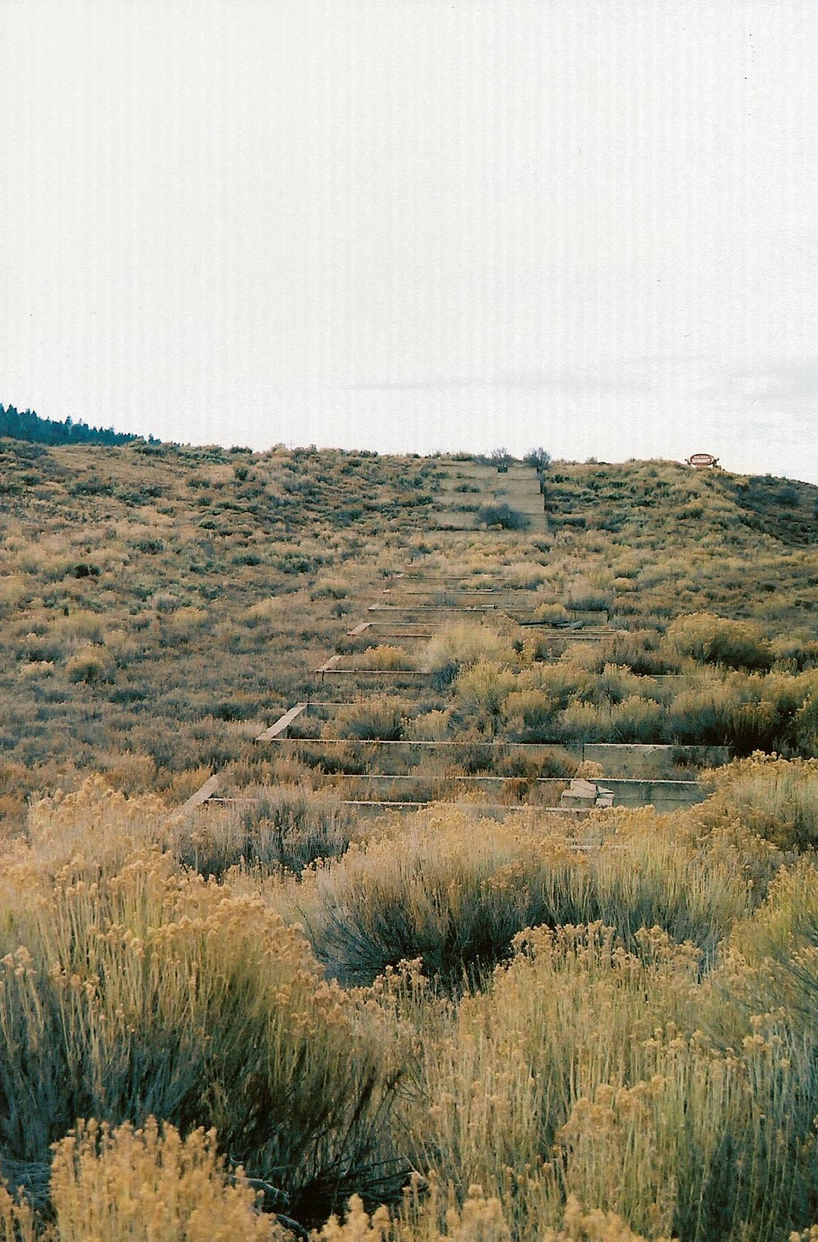 Row of foundations in the ghost town of Soldier Summit, Utah